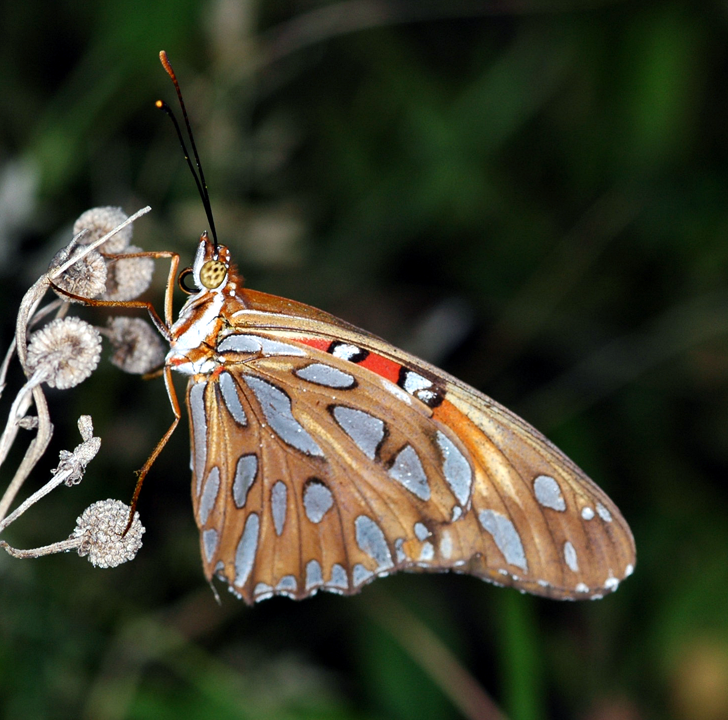 Agraulis vanillae incarnata resting on plant, Val Verde County, Lake Amistad National Rec Area, Del Rio, TX